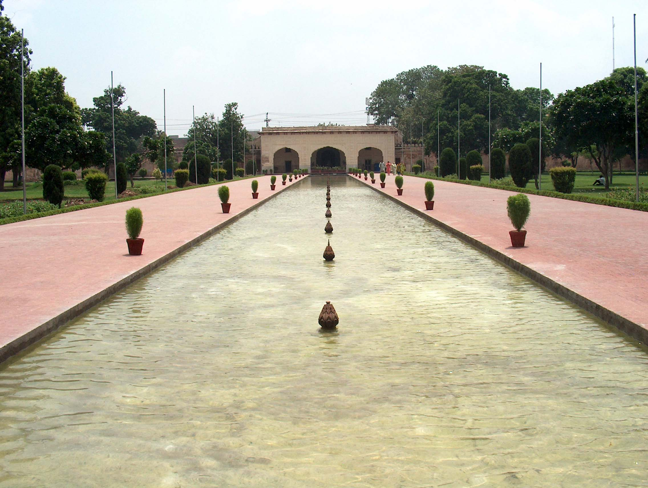 Pavilion on the south wall of the Garden, near its entrance, on the first level. Lahore, Pakisan. Camera used: HP Photosmart 850 (4 Megapixel).